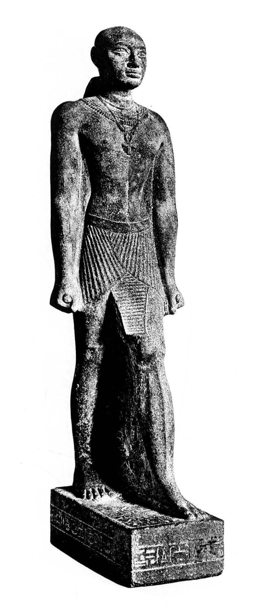 Statue of the High Priest of Amun Haremakhet, son of pharaoh Shabaka. Reign of Tanutamani, late 25th Dynasty, Third Intermediate Period. Found in Karnak cachette, formerly in Cairo Museum (CG 42204 / JE 38580), now in the Nubian Museum of Aswan.